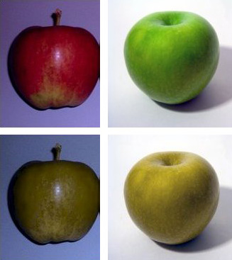 Side-by-side comparison of two images of apples as seen by a trichromatic observer and the same apples as seen by a deuteranope (color blind individual). Simulation performed using the vischeck website ( with an algorithm originally developed by Brettel et al., 1994. Original images of apples are taken from the Wikipedia commons: and Author: Alex Wade